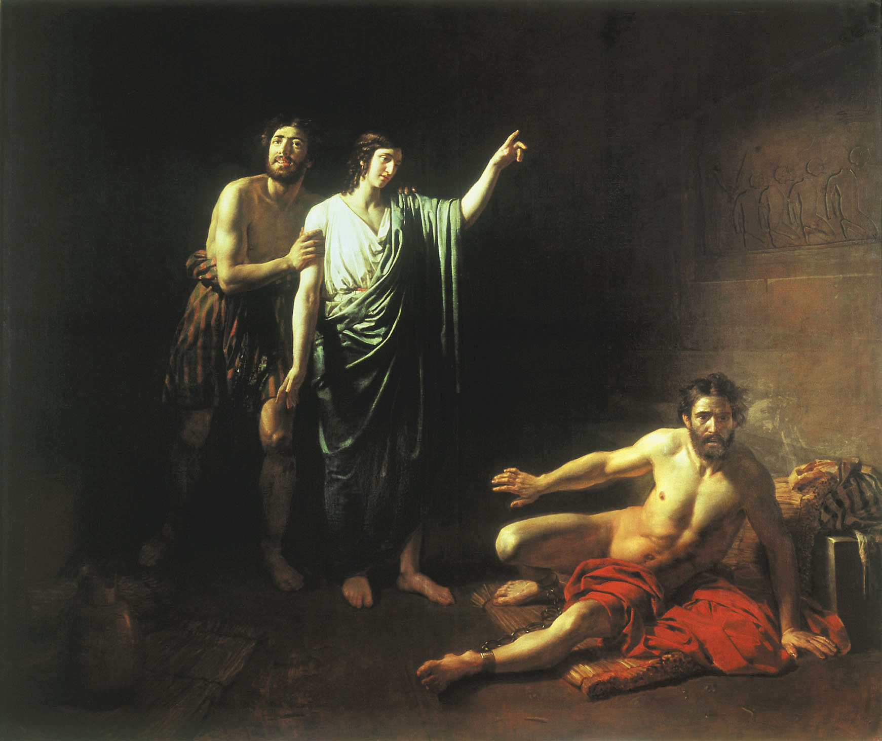 Joseph interprets the butler's and the baker's dreams in a prison, as in Genesis 40, 1827 painting by Alexander Andreyevich Ivanov, oil on canvas, at the Russian Museum (State Russian Museum), St. Petersburg